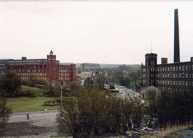 Athens Mill, Brook Lane, Lees, Greater Manchester, England. The Athens Mill on the left of the photograph was built in 1905 on the site of the Medlock Mill. In the 1960s it was used for storing tractors. The top floor shows fire damage. The mill on the right of the photograph is Leesbrook Mill. Behind the Athens stands the Owl Mill on New St, Lees. It was built in 1898 and when I took the photograph was owned by Newroyd In the middle of the photograph is the Acorn Mill on Mellor St. Formerly Hey Lane Mill, it is now flats. On the horizon at the right is Rome Mill, Walker St, Springhead. The site is now houses.